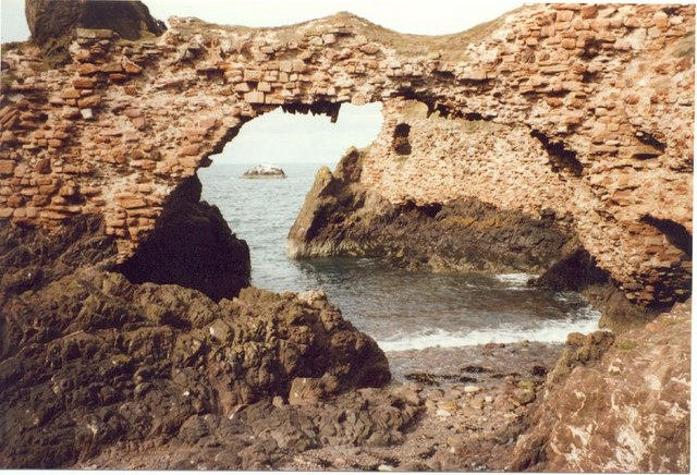 Precarious Ruins of Dunbar Castle